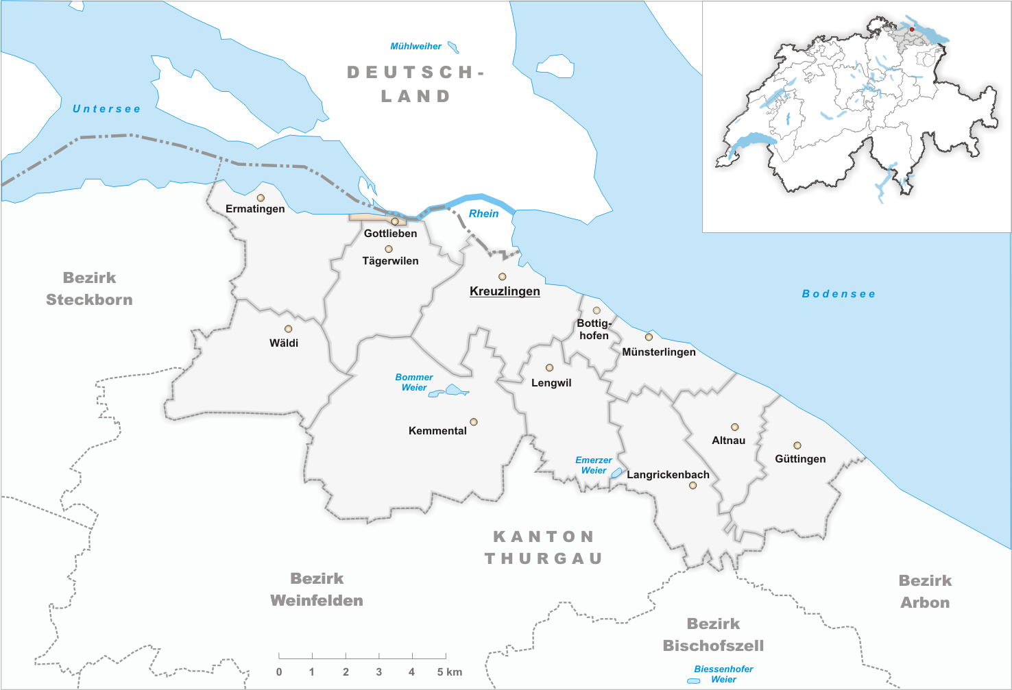 Municipality Gottlieben